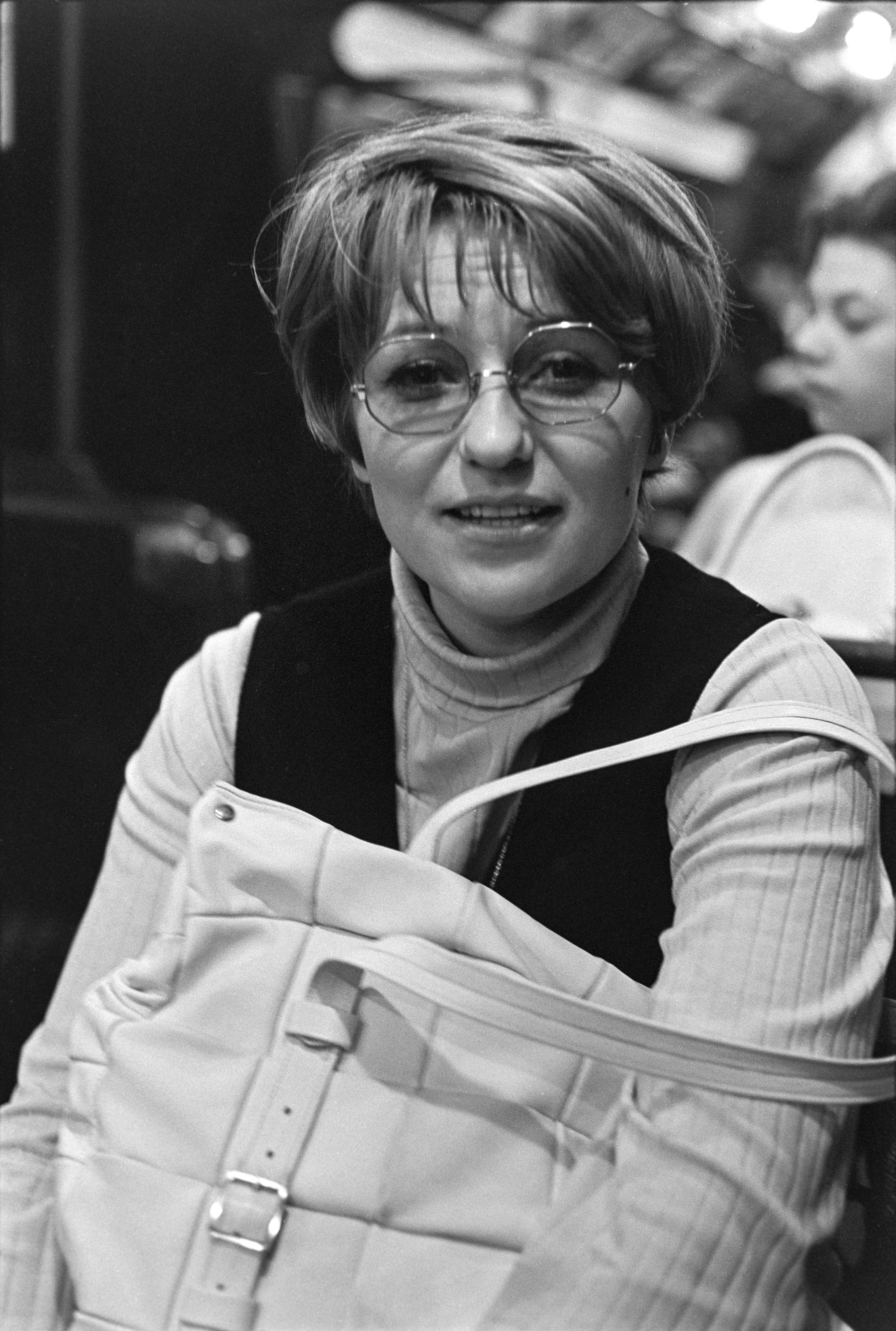 Photograph of the Finnish writer and journalist Ulla-Maija “Uma” Aaltonen in London.